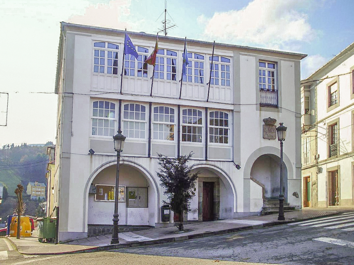 This picture shows the town hall of Boal (Asturias, Spain).